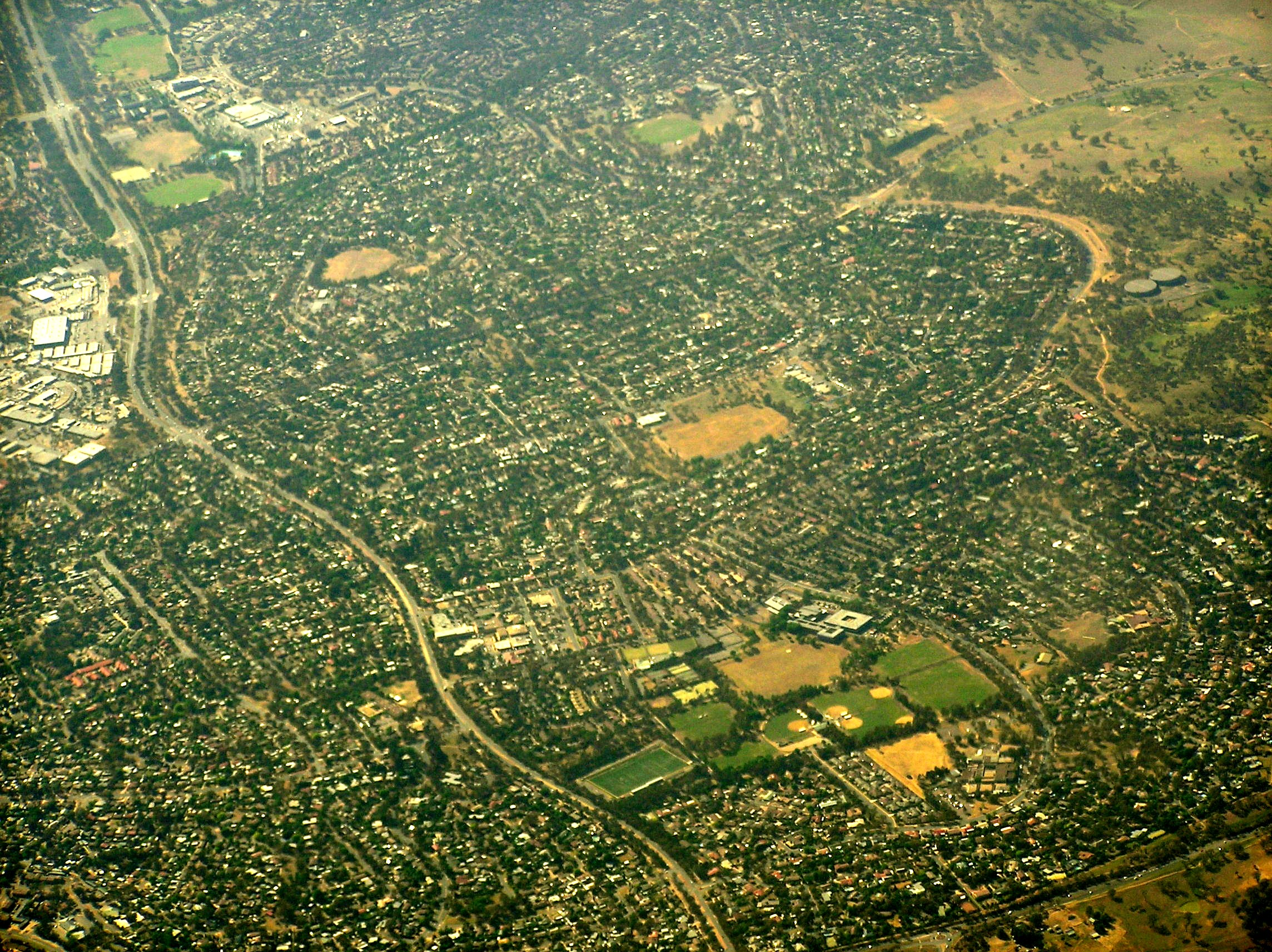 aerial view of Weetangera, Australian Capital Territory